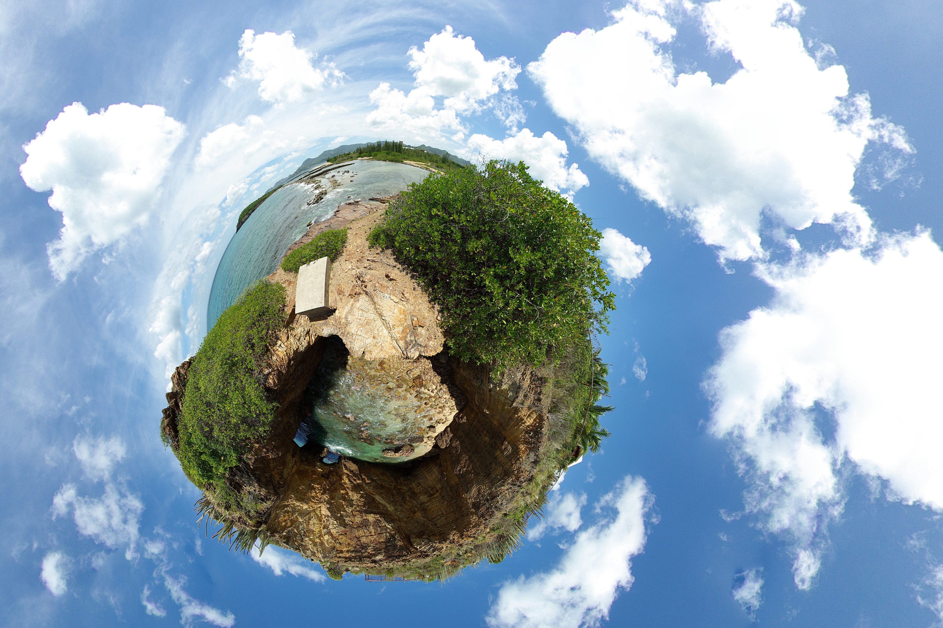 A 360-degree spherical panorama of a beach in Marigot, Saint Martin, from 9 images which uses stereographic projection to create a globe. This is called the "little planet" effect, when the area close to the point opposite to the center of projection becomes significantly enlarged. A detailed explanation of how it is done can be found here. This place is named Devil's Hole, located on the Low-lands area of the Saint Martin island (FWI)